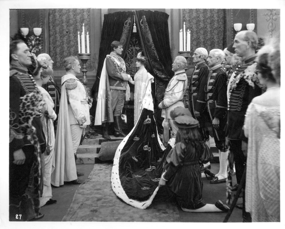 The Goose Girl publicity photo (modern digital watermark muted)